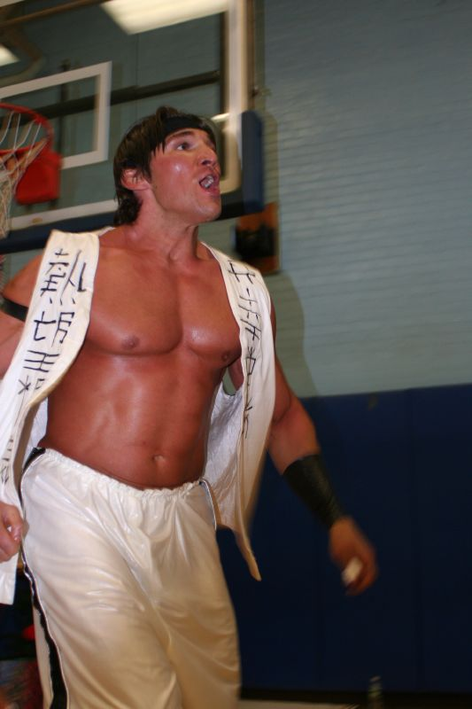 Professional wrestler Antonio Thomas (real name Thomas Matera) at a Power and Glory Wrestling show in December 2008